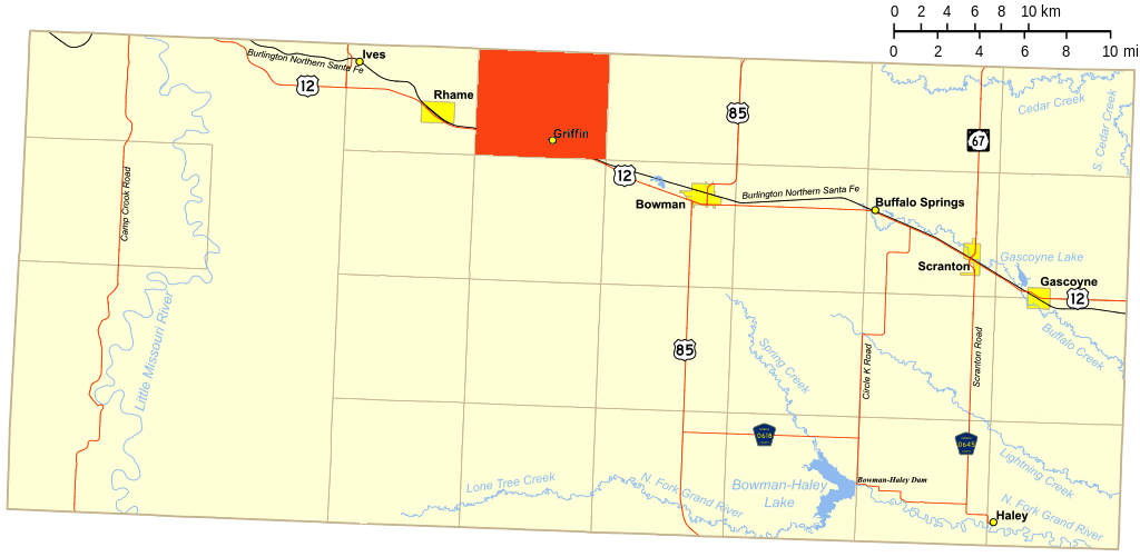 Map of Bowman County, North Dakota, with Marion Township highlighted